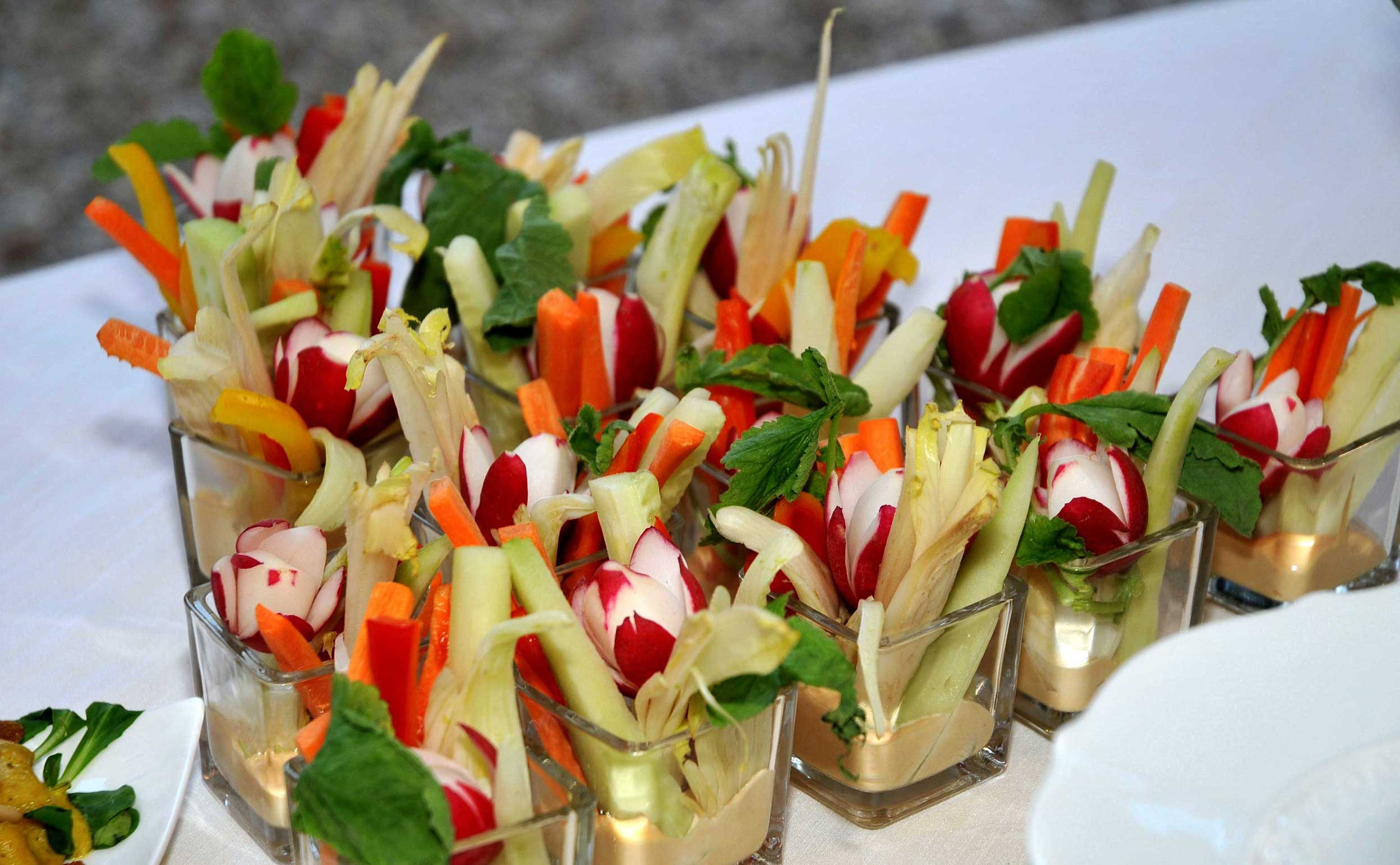 pinzimio